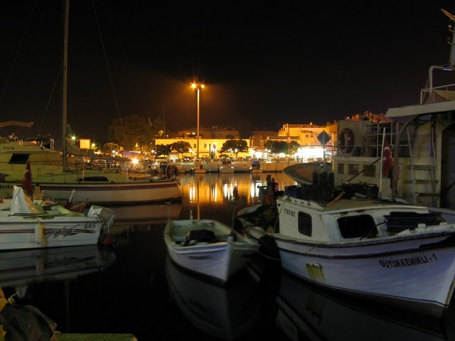 Gelibolu (Gallipoli)